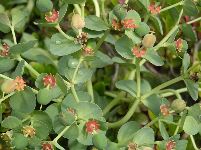 Euphorbia myrsinites